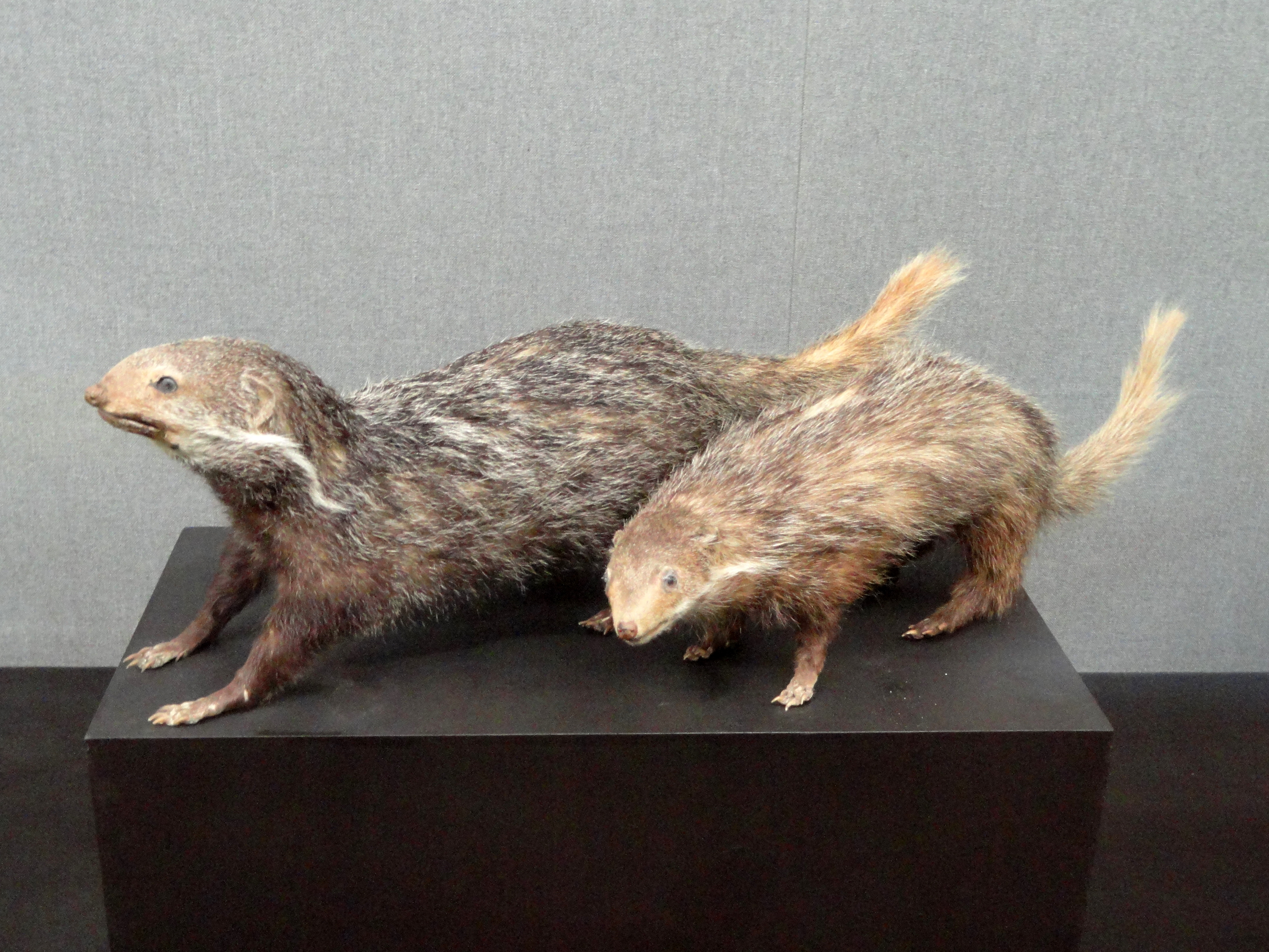 Taxidermy exhibit in the Kunming Natural History Museum of Zoology (昆明动物博物馆), Kunming, Yunnan, China.